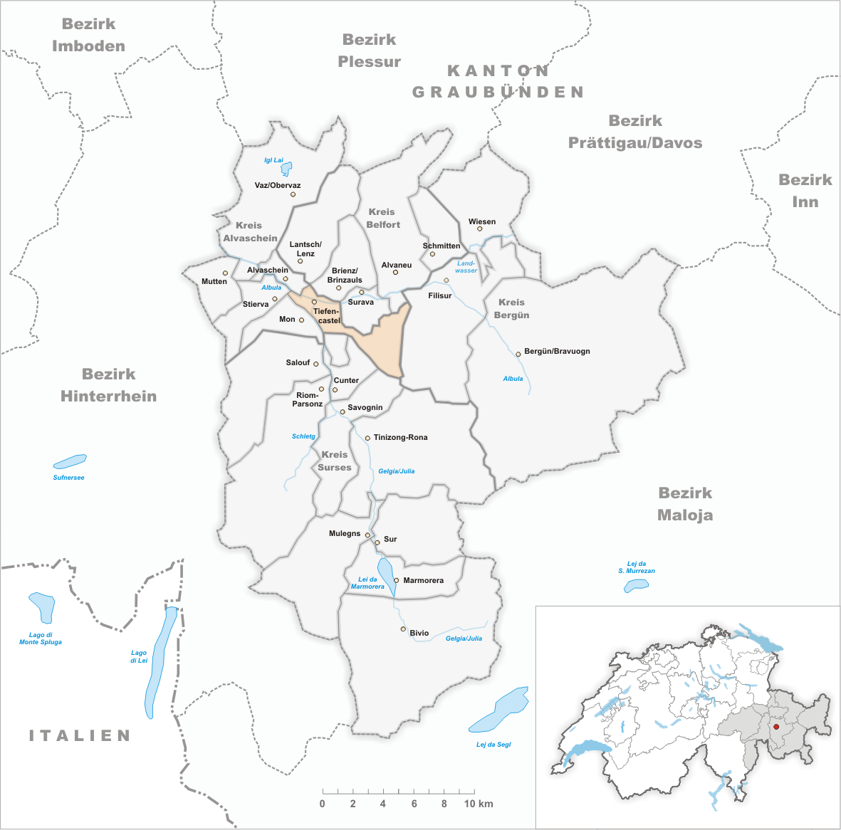 Municipality Tiefencastel